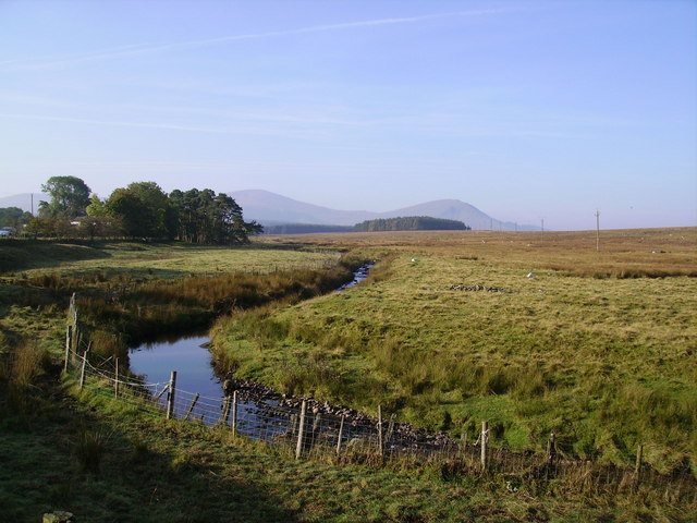 Trout Beck Looking over the vast plain of Flaska and Threlkeld Common towards Clough Head and Great Dodd